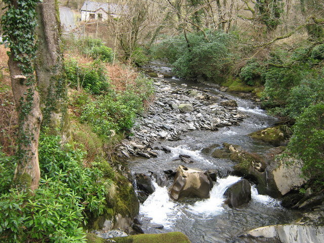 Nant Llwydiarth Looking upstream from the bridge to the Hall.